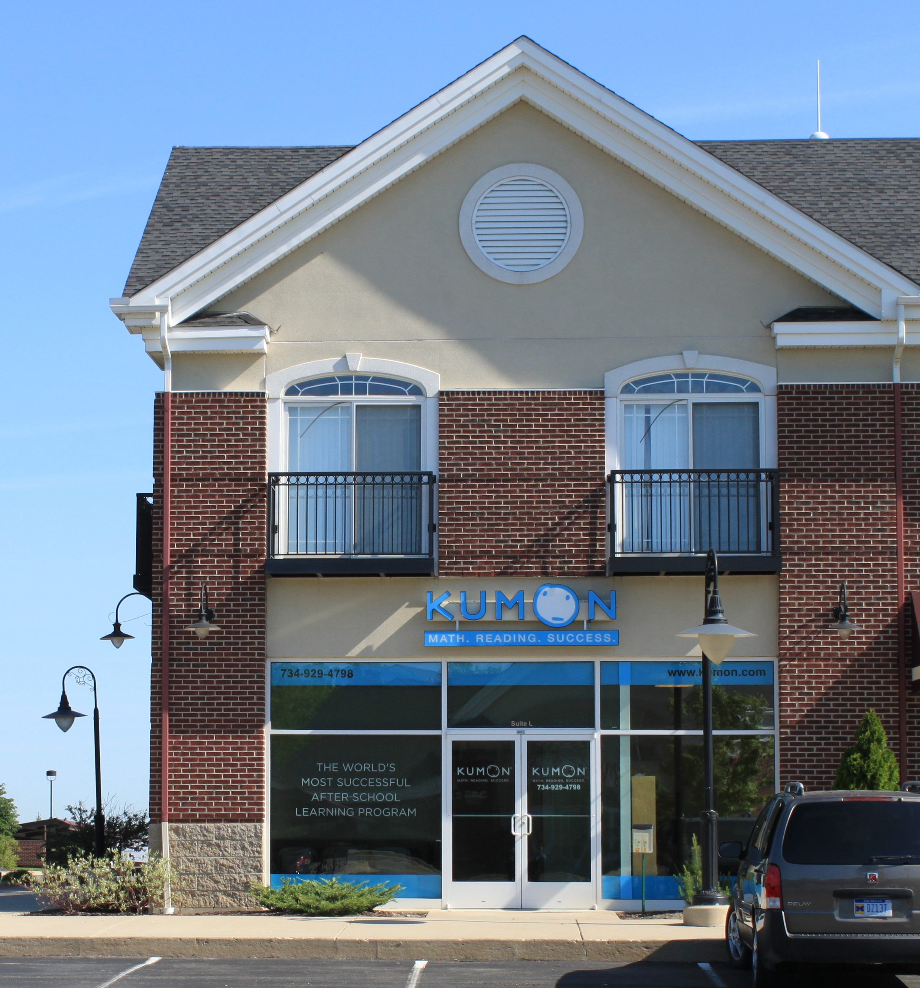 Kumon Math and Reading Center, 283 South Zeeb Road, Scio Township (Ann Arbor), Michigan.